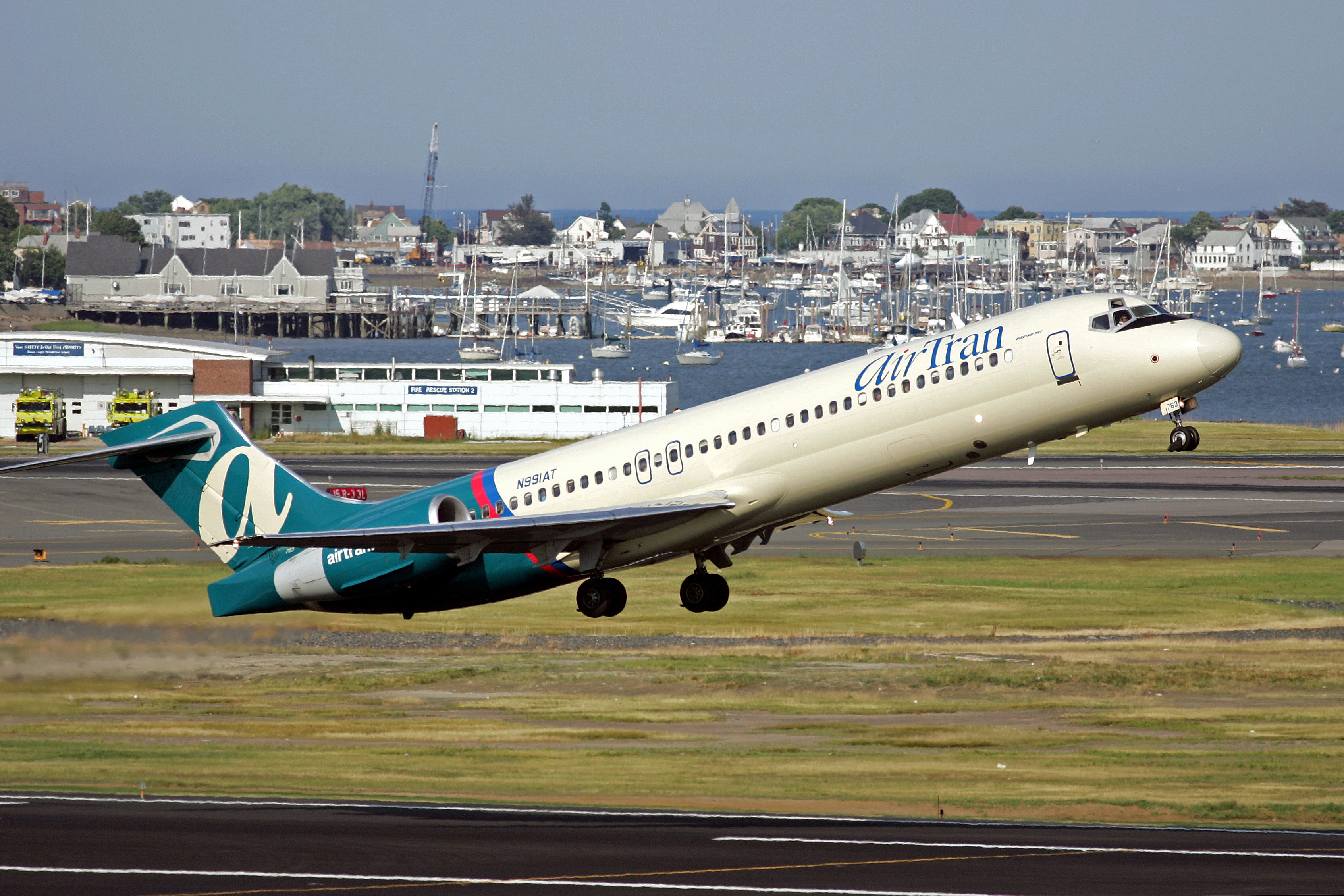 Leaving the runway at Logan Airport Boston, Massachusetts USA.